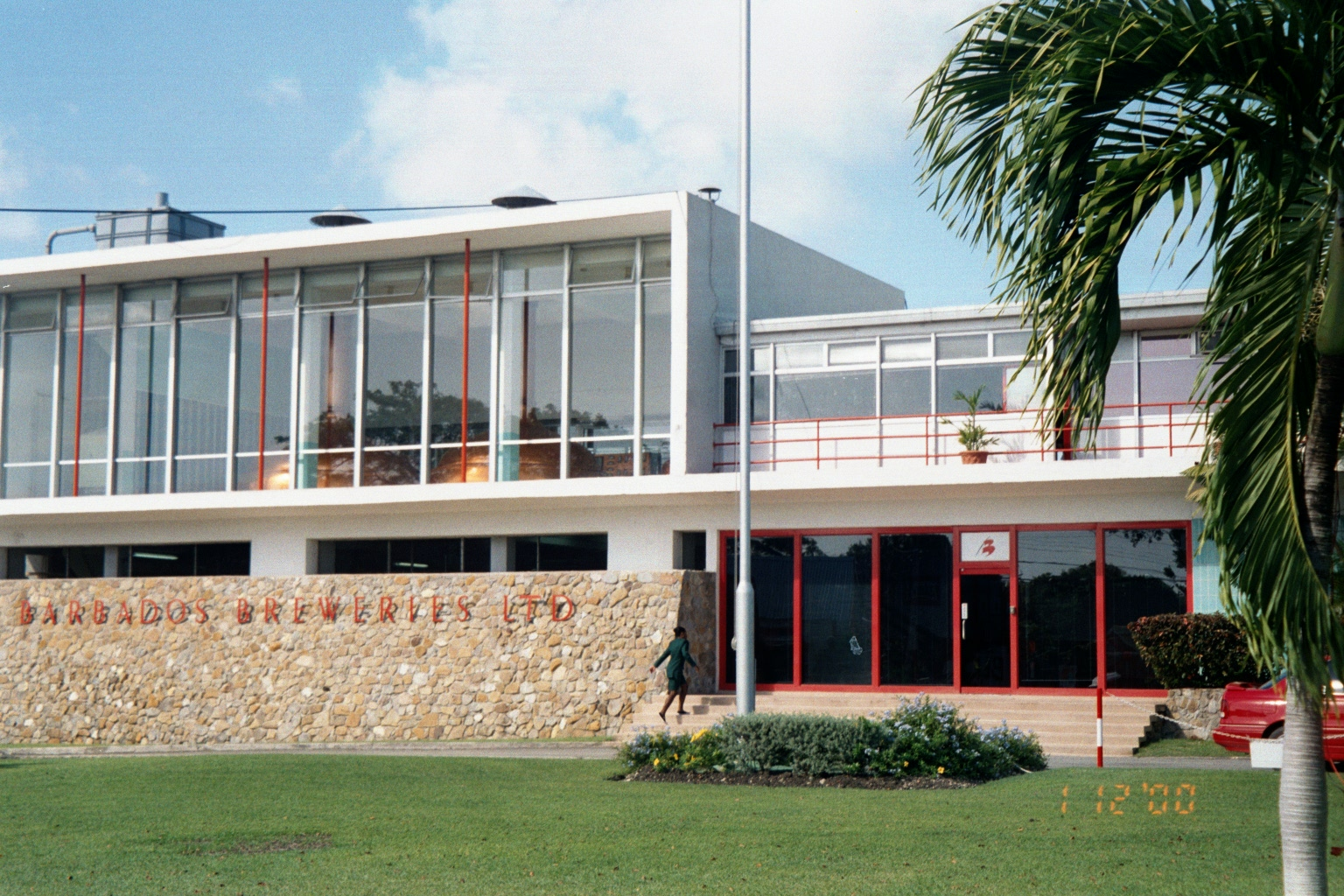 The Banks Beer Brewery located at Wildey Main Road St. Michael, Barbados. (c.a. November 2000)